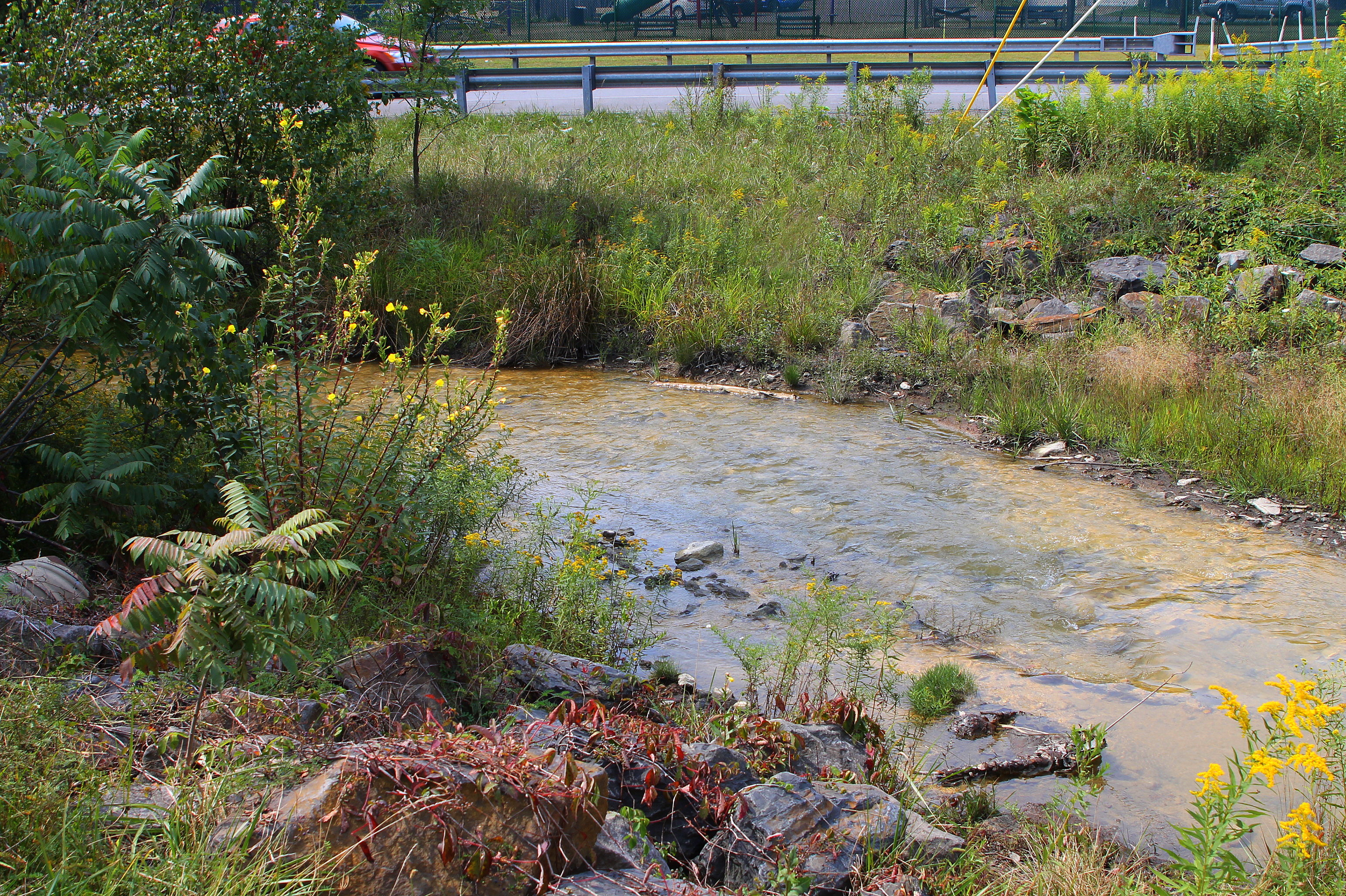 North Branch Shamokin Creek near Strong and Atlas